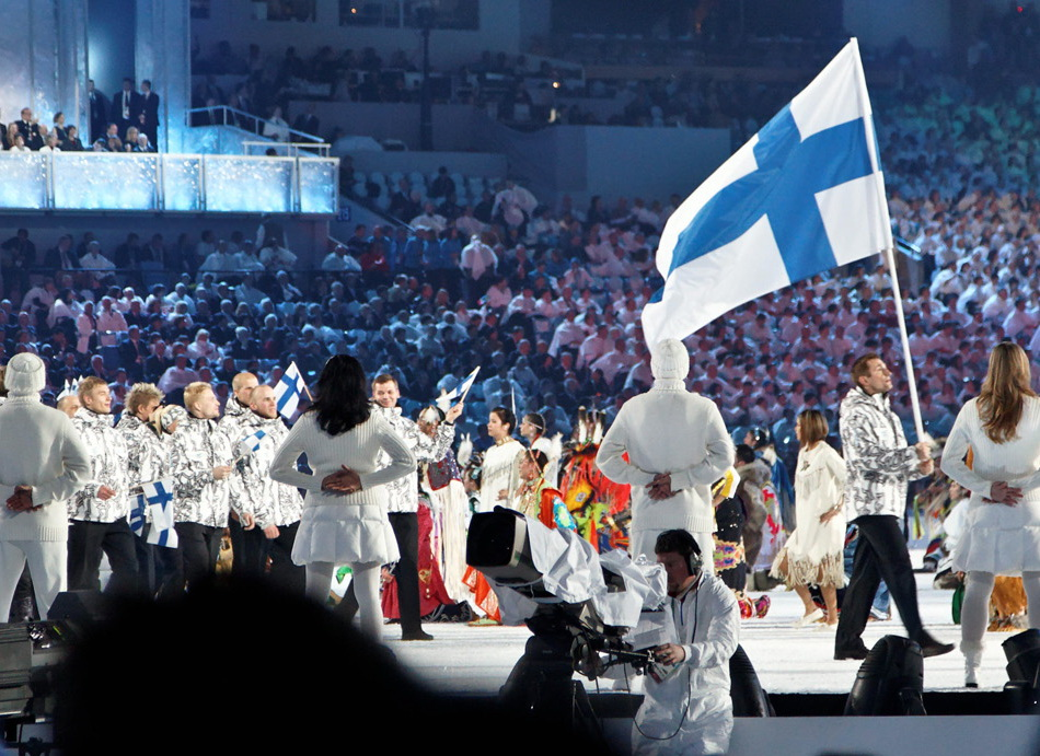 Ice hockey player Ville Peltonen leads Finland in the Parade of Nations. The Opening Ceremony for the 21st Olympic Winter Games in Vancouver British Columbia, Canada was truly an event that I feel privileged to have attended. There is something about the Olympics, and the way it is able to unite the World. I met people from every corner of the globe, every one of them in a cheerful mood, every one of them getting along. Only an event like the Olympics can bring people from so far apart, so close together. It was an amazing experience that I will never forget. Absolutely amazing :)